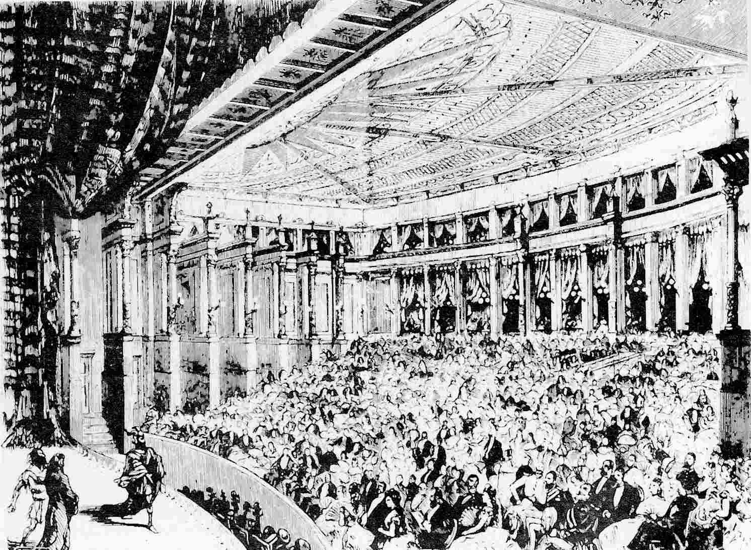 Bayreuth 1876 - 1st performance of Rheingold